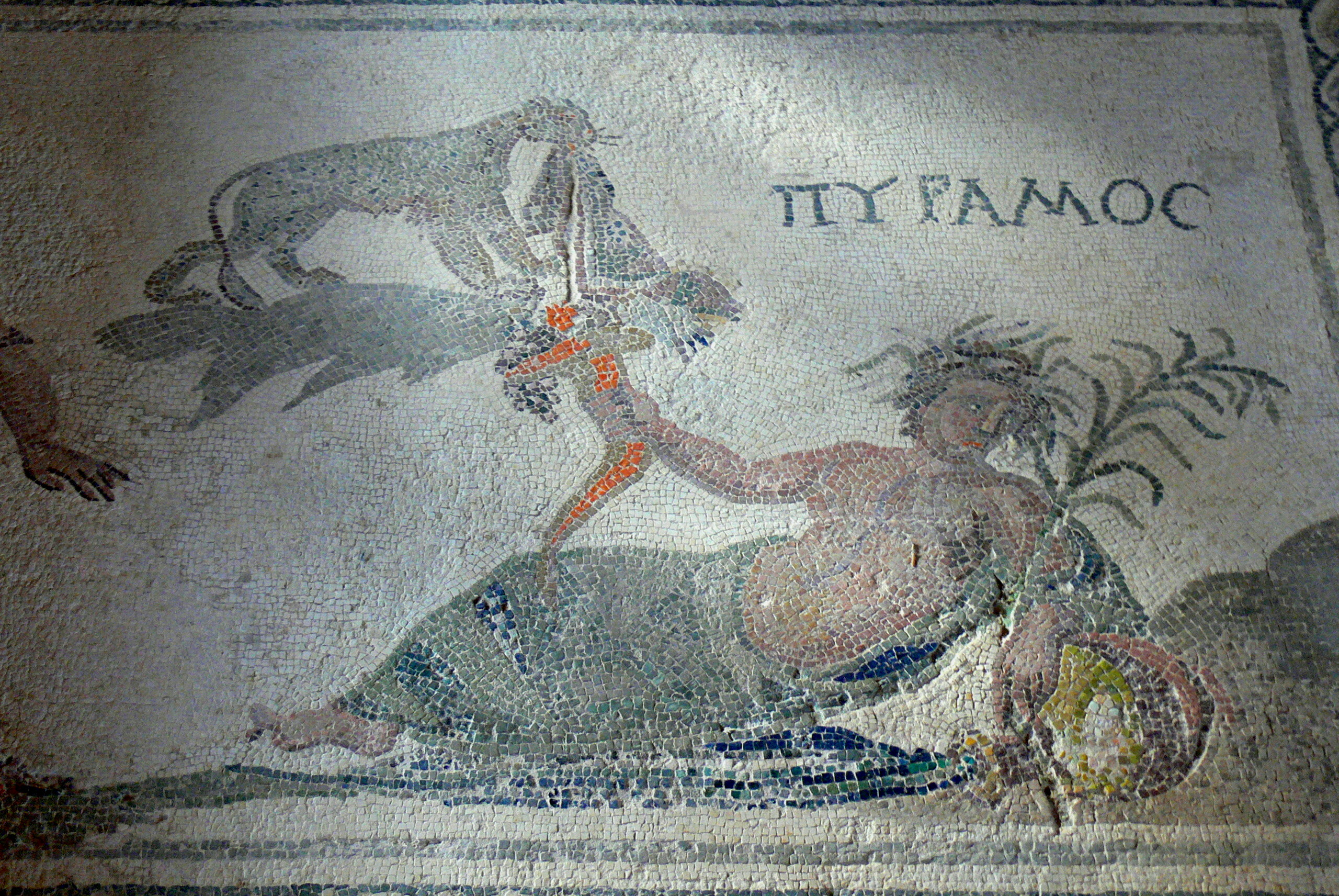 Paphos Archaeological Park. House of Dionysos: Pyramus and Thisbe ( detail ).